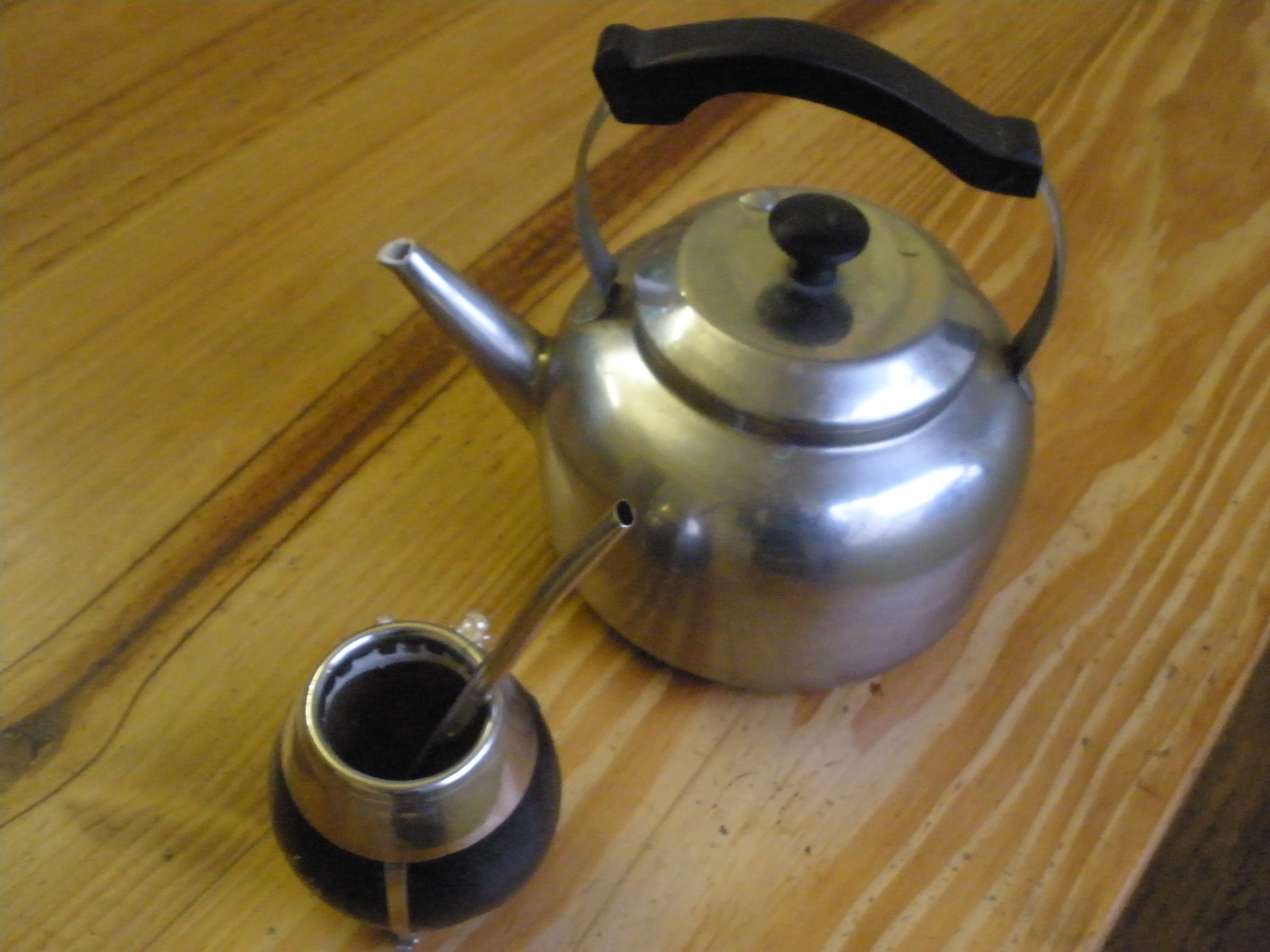 Tradicional mate or guampa with a stainless steel kettle.